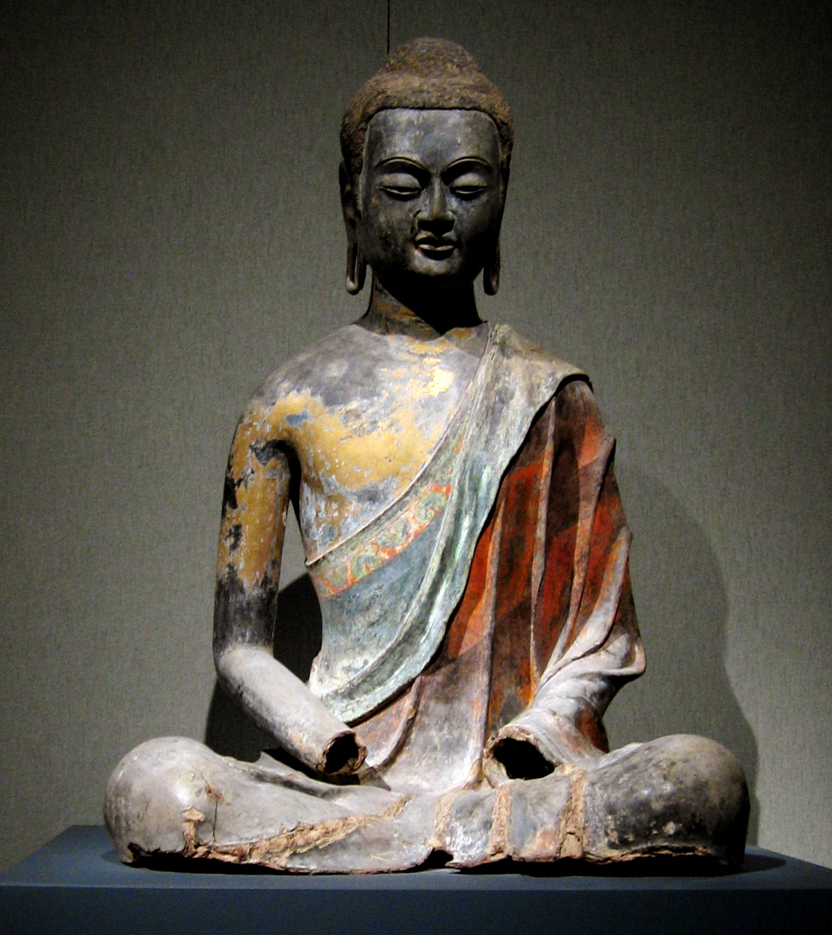 Seated Buddha, probably Amitabha (Amituo). Buddhist images executed in dry lacquer were highly valued by the Chinese because of their costly and time-consuming process of production. There are so few surviving examples that this seated Buddha is especially precious. To fashion the body of the image, the craftsman made a rough form of the sculpture in clay and then applied at least three layers of hemp cloth, each secured with a paste made of raw lacquer (the sap from the lac tree, Rhus verniciflua) and a fine powder of bone, horn, shell, ceramic, stone, or carbon. Each layer had to dry thoroughly before the next could be added. The clay core was then removed from the lacquered image. The head and hands were likely modeled separately, using the same technique as that used for the body, and then attached to the sculpture. The surface was finished with several coatings of pure lacquer and then painted. Portrayed as a youthful figure, the Buddha sits in the full lotus position, with his legs tightly interlocked, though the lower part of the sculpture is missing. The position of the damaged arms suggests that the hands performed the "contemplation" gesture. The columnar form and lean gracefulness of the figure recall the style of Buddhist sculptures of the late Six Dynasties, but the attempt to render anatomical differentiation and, in particular, the emotional impact of the Buddha's expression are distinguishing features of early Tang style. The traces of brilliant red and blue, vividly combined to form a stylized floral pattern in the hem of the undergarment crossing the chest, and the remains of shimmering gilt on the surface are evidence of the sumptuous effect of this once colorful figure.